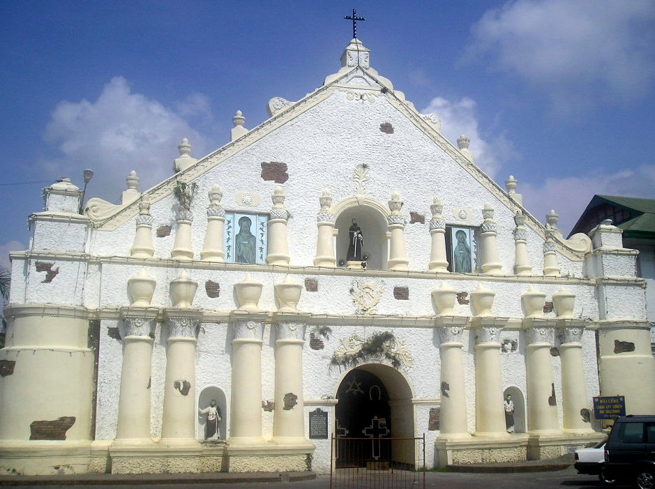 The exterior of St Williams Metropolitan Cathedral in Laoag.